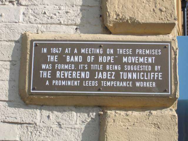 Plaque says "In 1847 at a meeting on these premises the 'Band of Hope' Movement was formed. It's [sic] title being suggested by the Reverend Jabez Tunnicliffe, a prominent Leeds temperance worker." --MaxHund 23:59, 21 March 2006 (UTC)